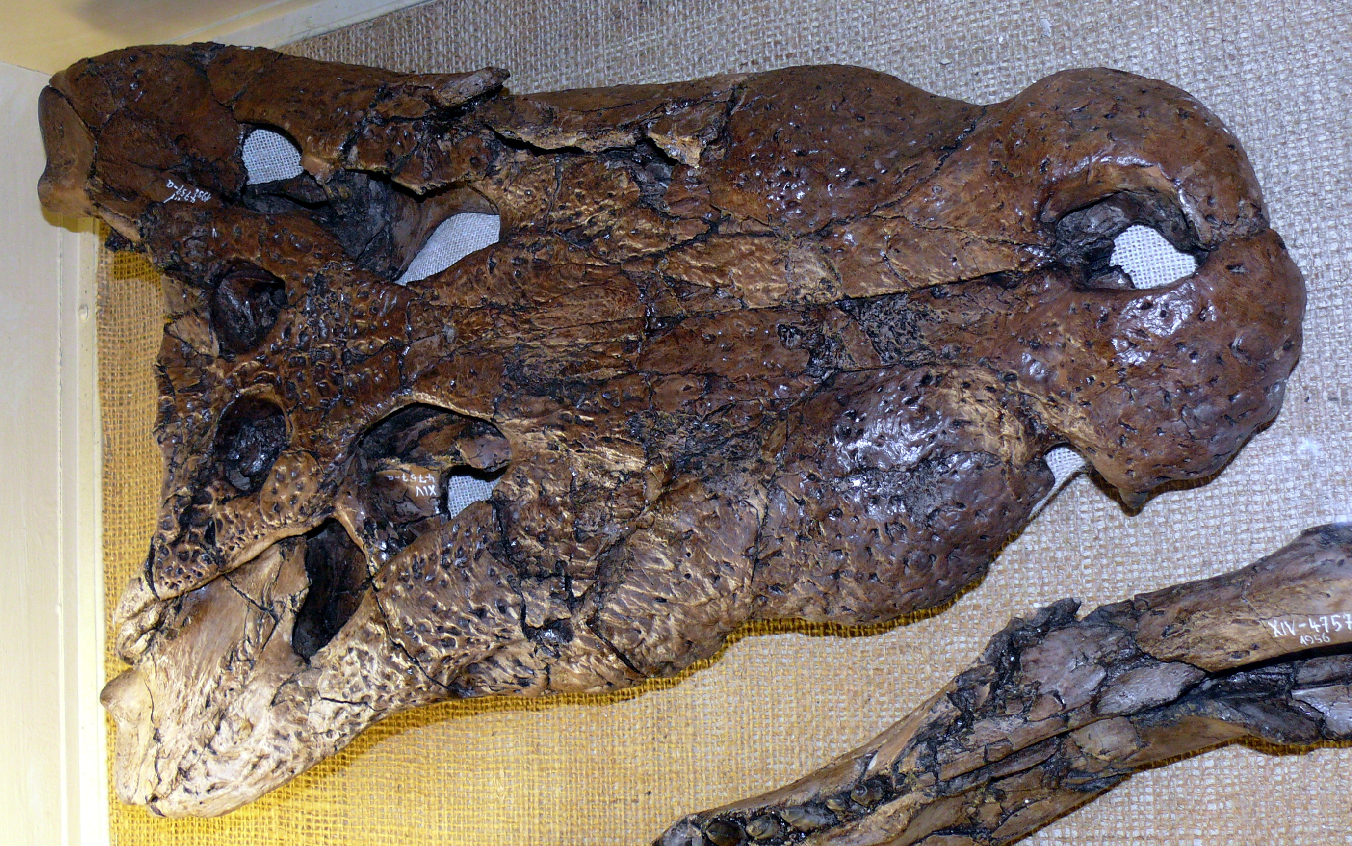 Skull of the extinct modern crocodile Asiatosuchus germanicus BERG, 1966 from the Eocene deposits of the Geiseltal fossil site, Saxony Anhalt, Central Germany.